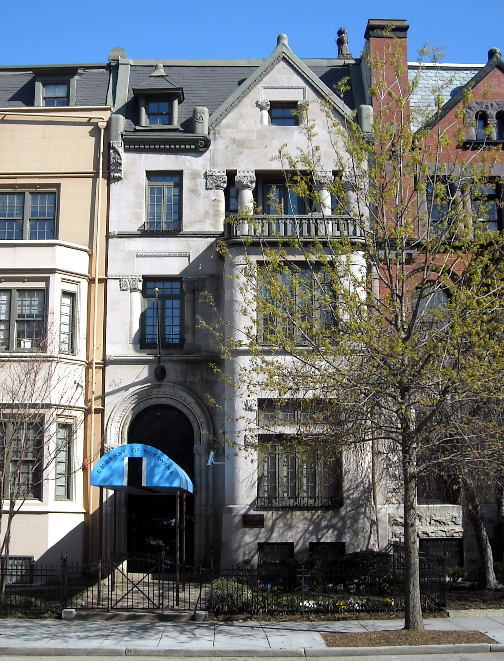 The Embassy of Botswana located at 1531 New Hampshire Avenue NW in the Dupont Circle neighborhood of Washington, D.C. The building was constructed in 1887 as a home for diplomat, attorney, and author Simon Wolf. It's designated a contributing property to the Dupont Circle Historic District. Previous owners include William F. Aldrich, Thomas H. Anderson, Thomas Leiter (son of Levi Leiter) and the National Active and Retired Federal Employees Association.